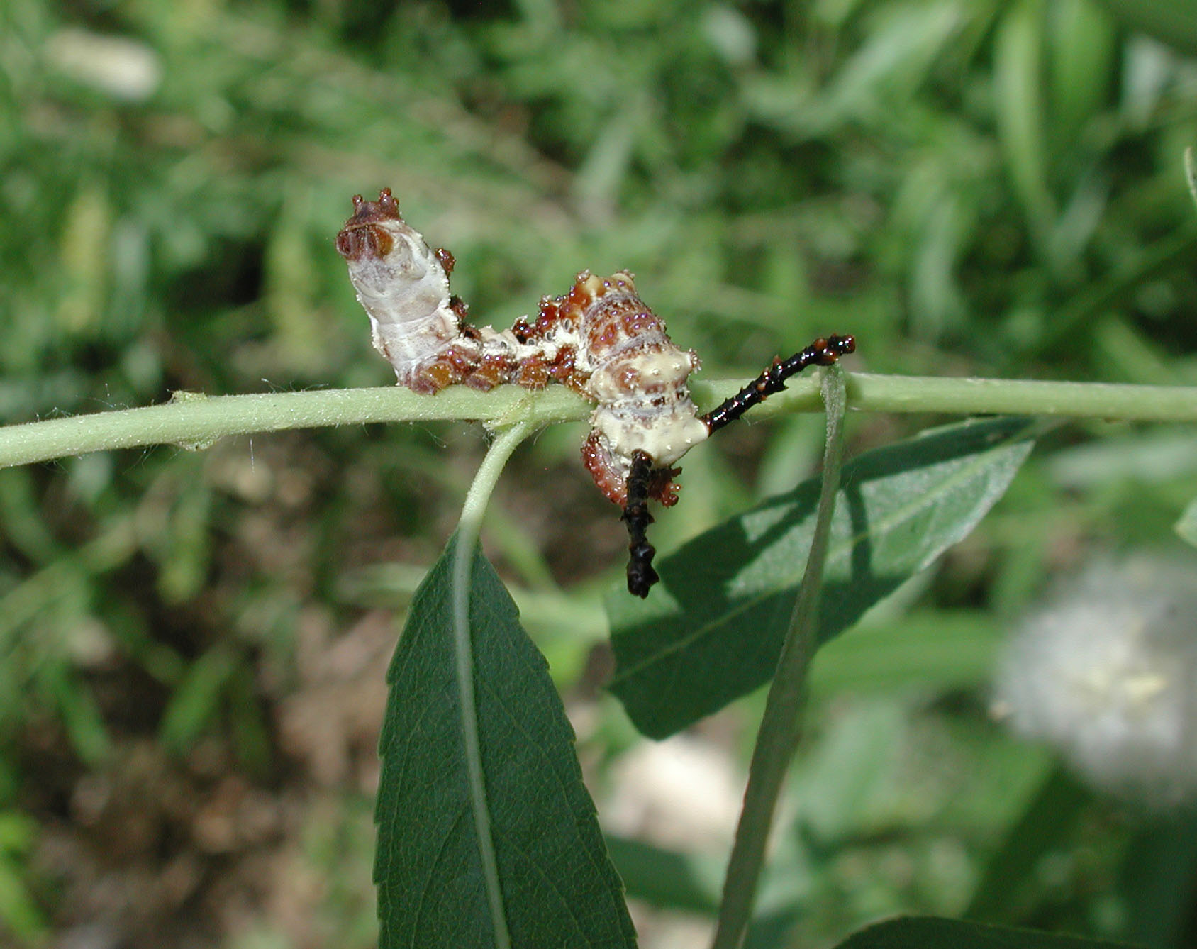 Approx 3rd instar larva of Limenitis arthemis arizonensis, the Red-spotted Purple. Mesquite Wash, eastern Maricopa County, Arizona, USA. When disturbed this caterpillar assumes a grotesque posture, which together with its coloration suggests something completely inedible. Thus it might escape predation by a hungry bird and complete its program to become an adult butterfly.